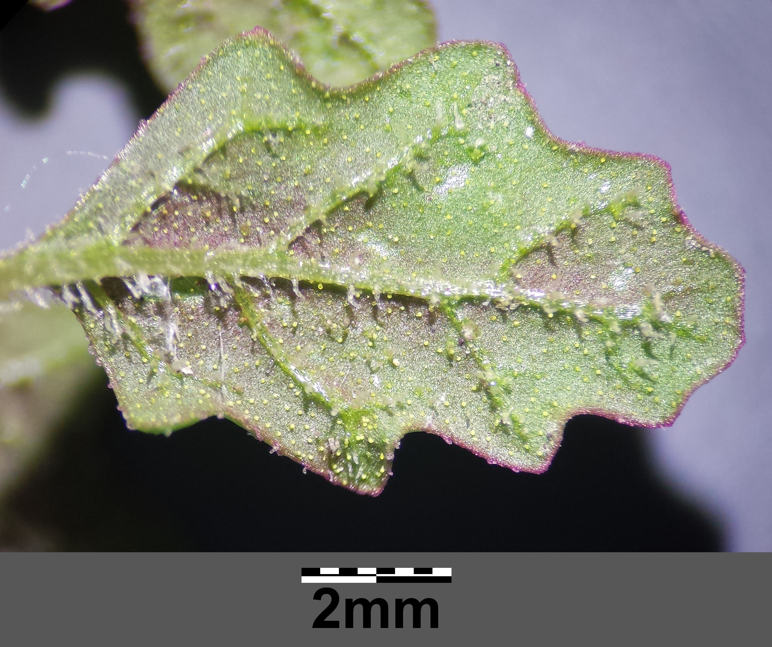 Leaf (bottom side) Taxonym: Dysphania pumilio ss Fischer et al. EfÖLS 2008 ISBN 978-3-85474-187-9 Location: Schwaigergasse, Vienna-Floridsdorf - ca. 160 m a.s.l. Habitat: gap in surface